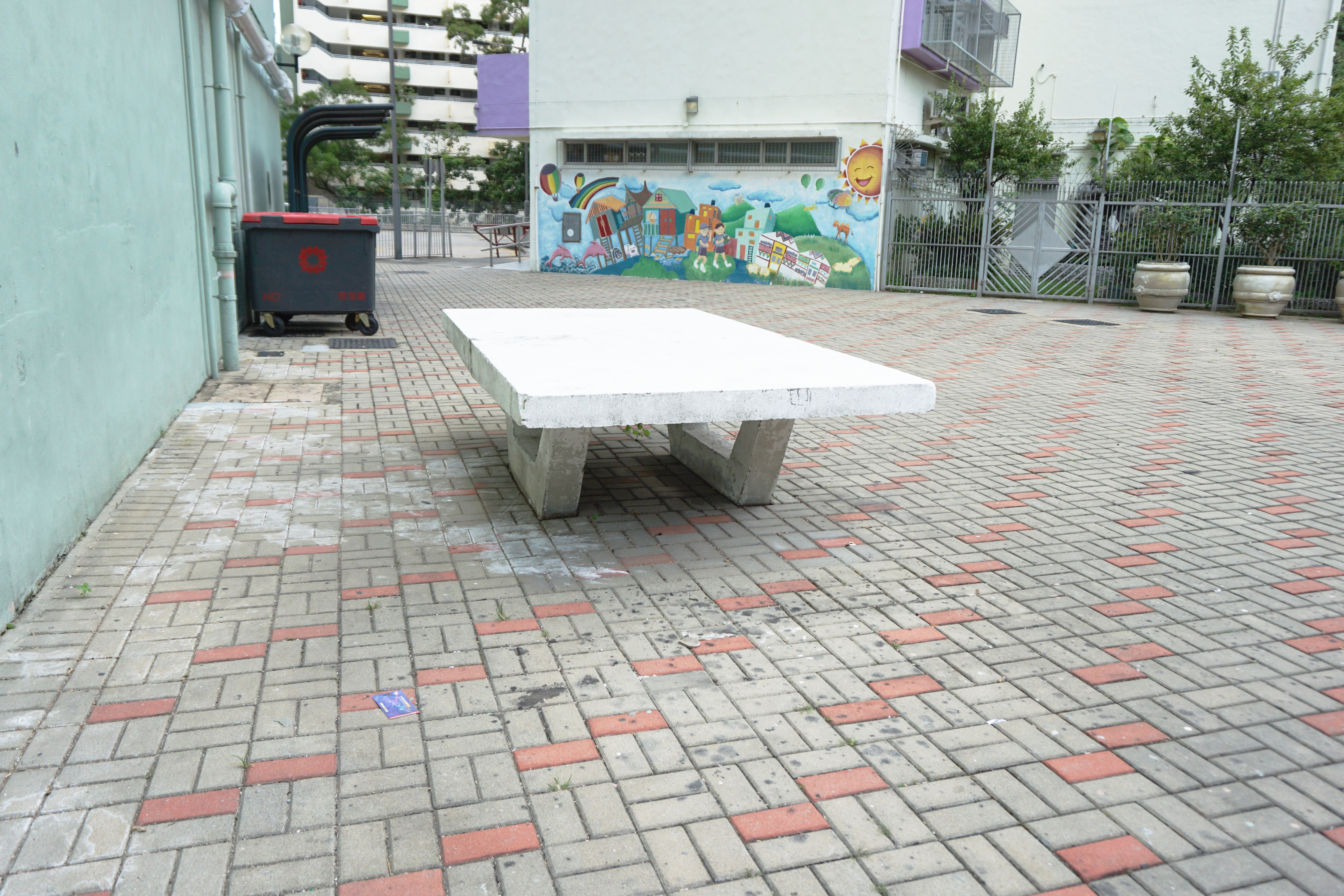 Lei Muk Shue Estate in Wo Yi Hop, Hong Kong.